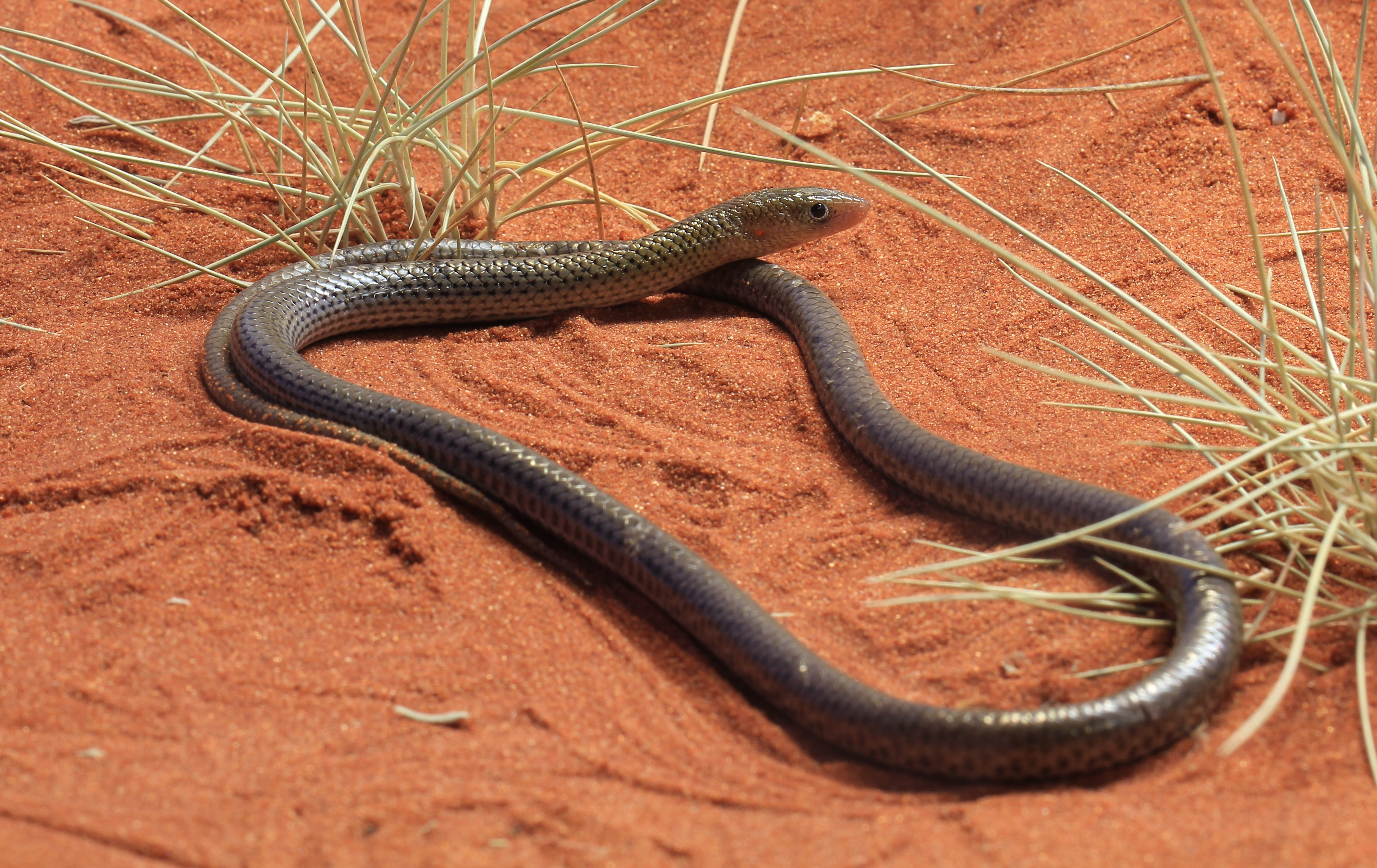 Delma nasuta, Spinifex Legless Lizard, taken in the reptile house at Alice Springs Desert Park, Alice Springs, Northern Territory, Australia